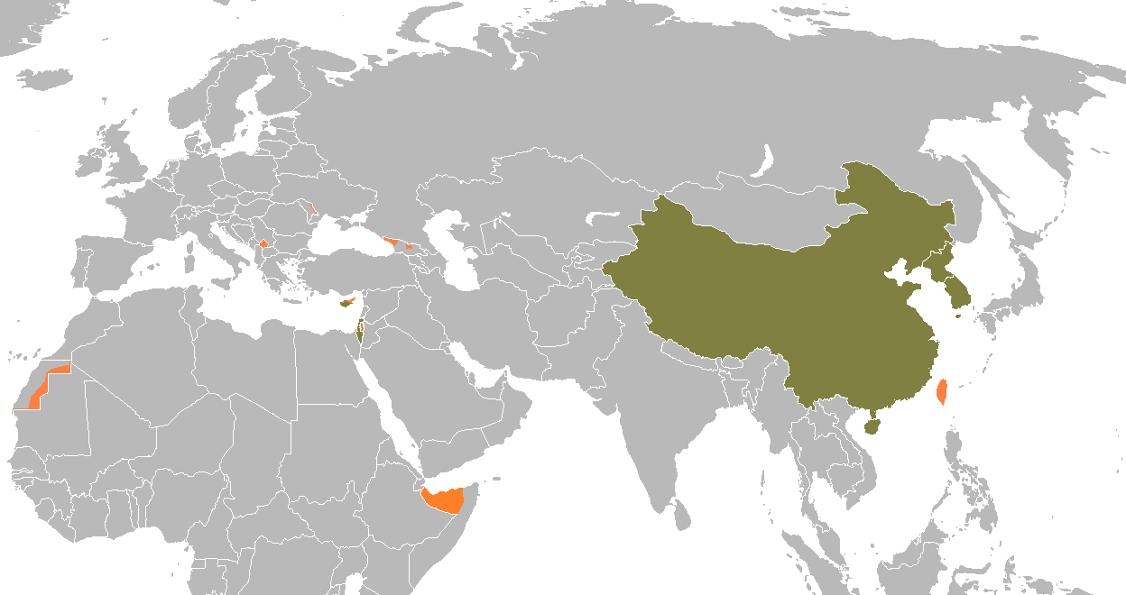 Unrecognized & partially recognized countries